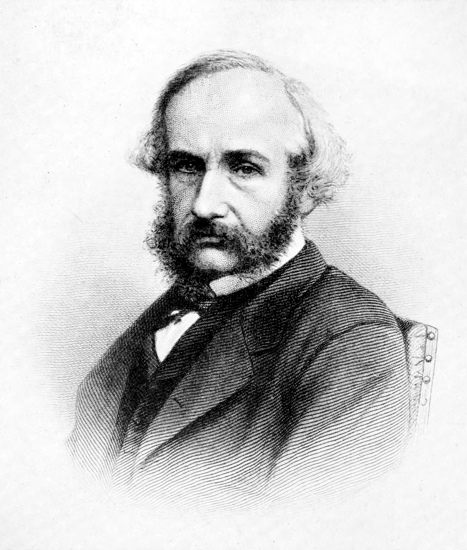 Plate 17 from Makers of British botany (1913), depicting William Henry Harvey (1811–1866).